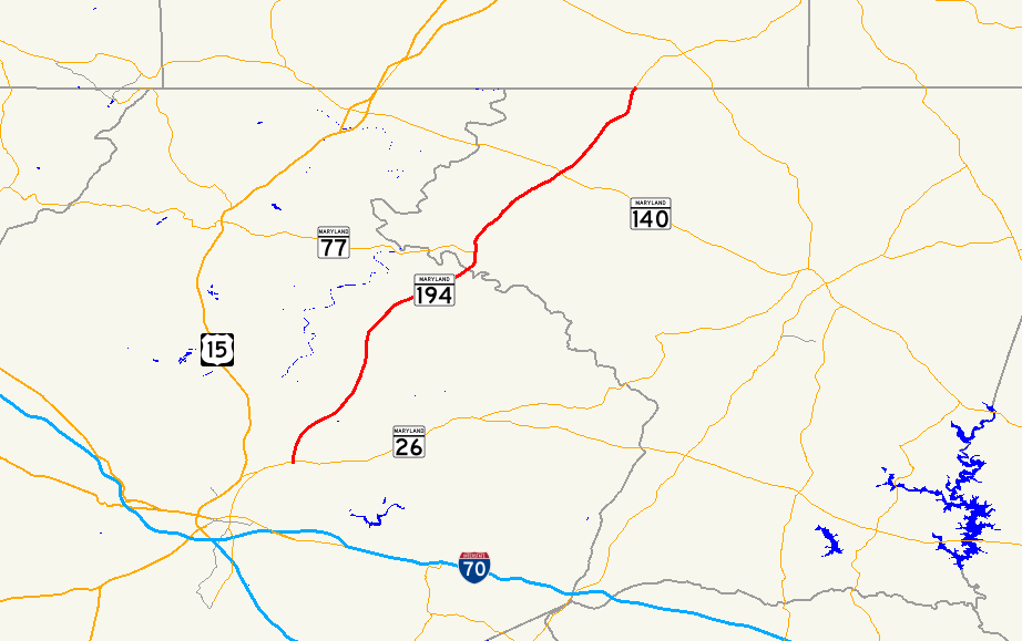 Map of Maryland Route 194